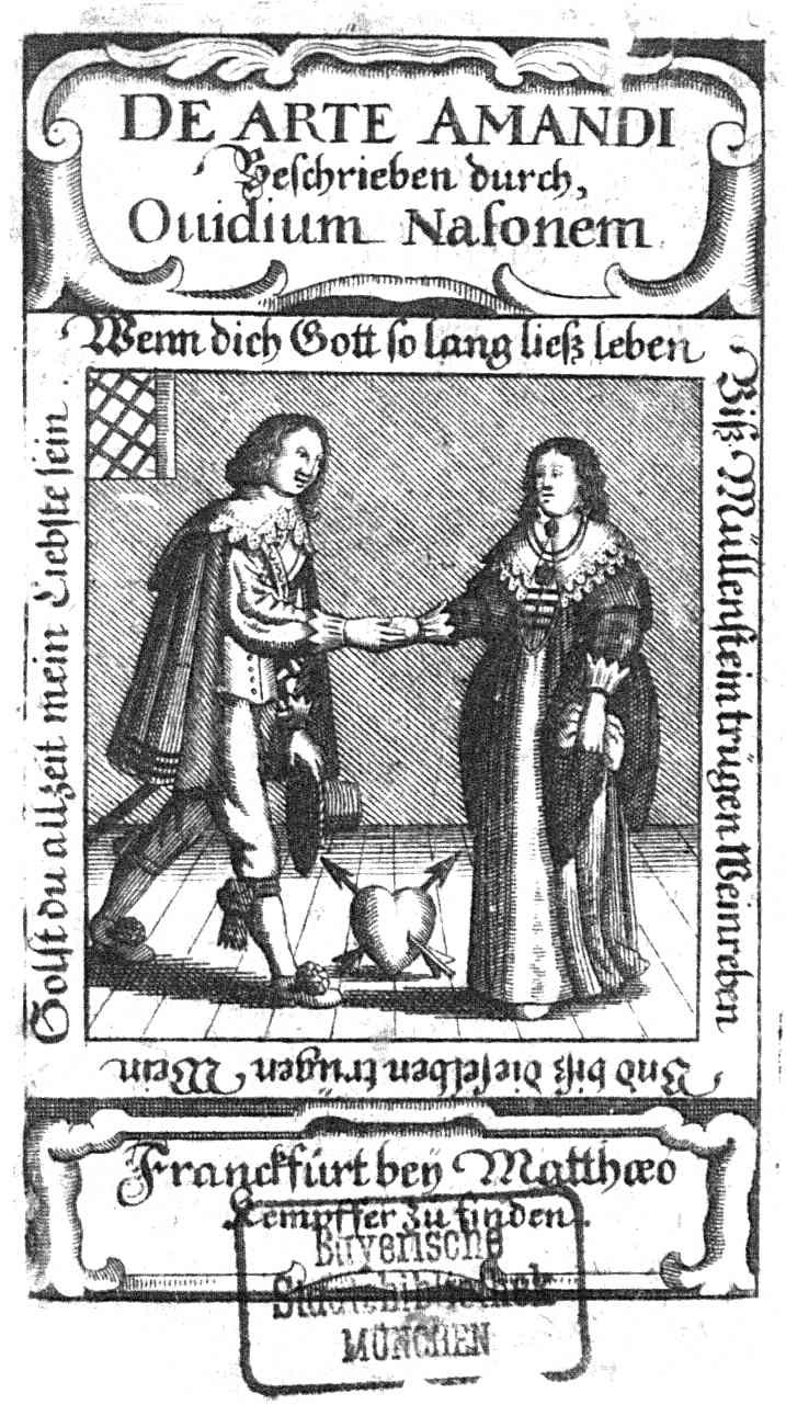 Title of a German translation of Ovid's "Ars amatoria", printed in 1644